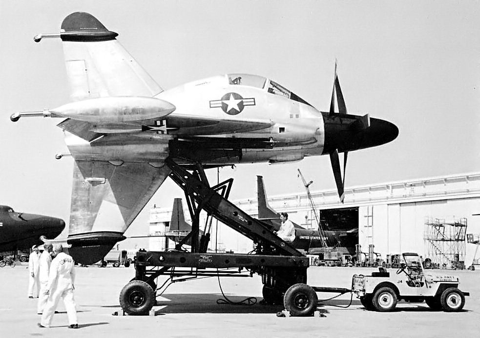 The Convair XFY-1 experimental STOL aircraft on its launching cart in 1954.